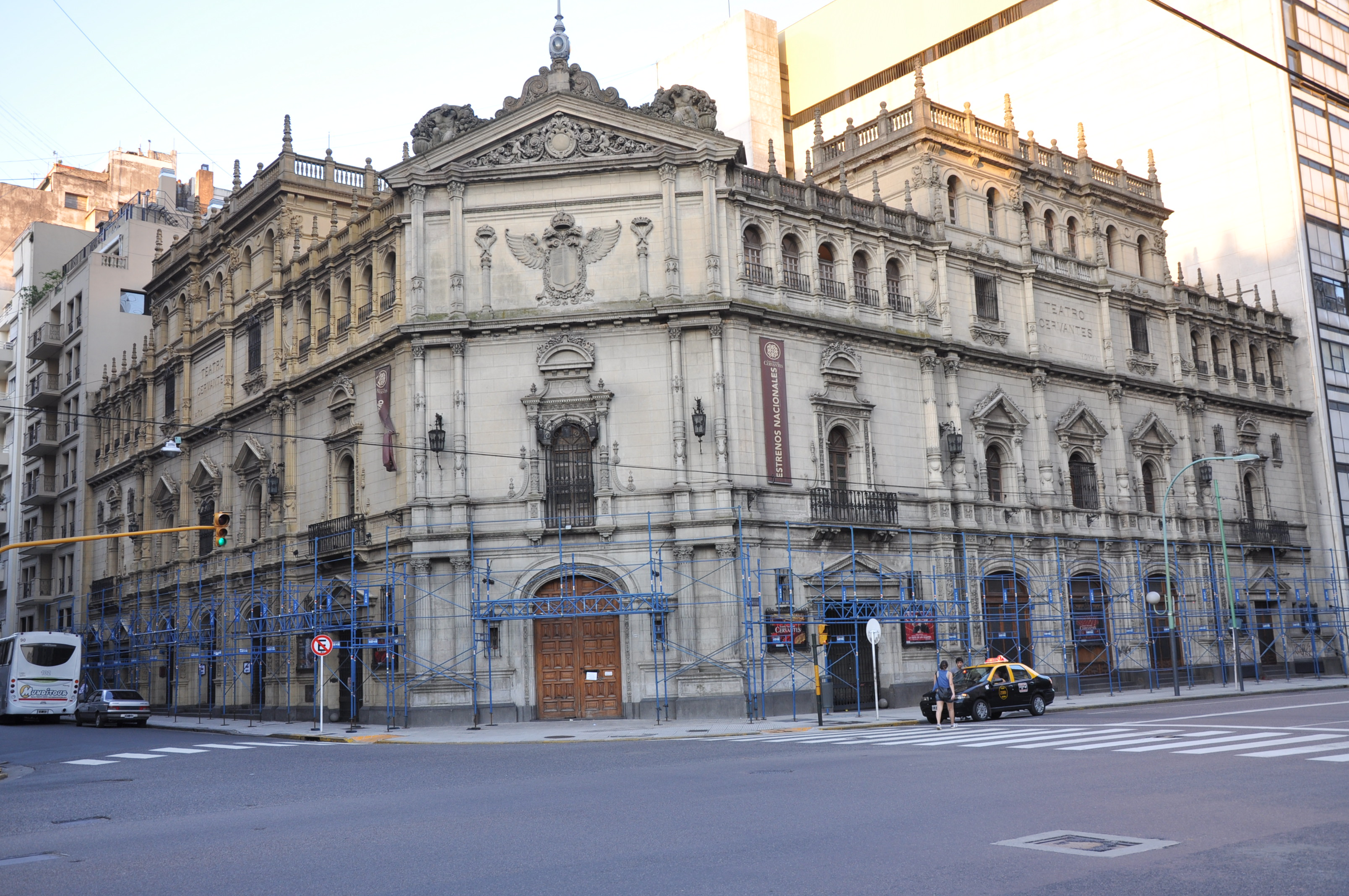 The Cervantes National Theatre in Buenos Aires is the national stage and comedy theatre of Argentina.